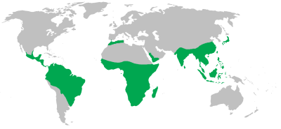 Distribution of non-human primates.